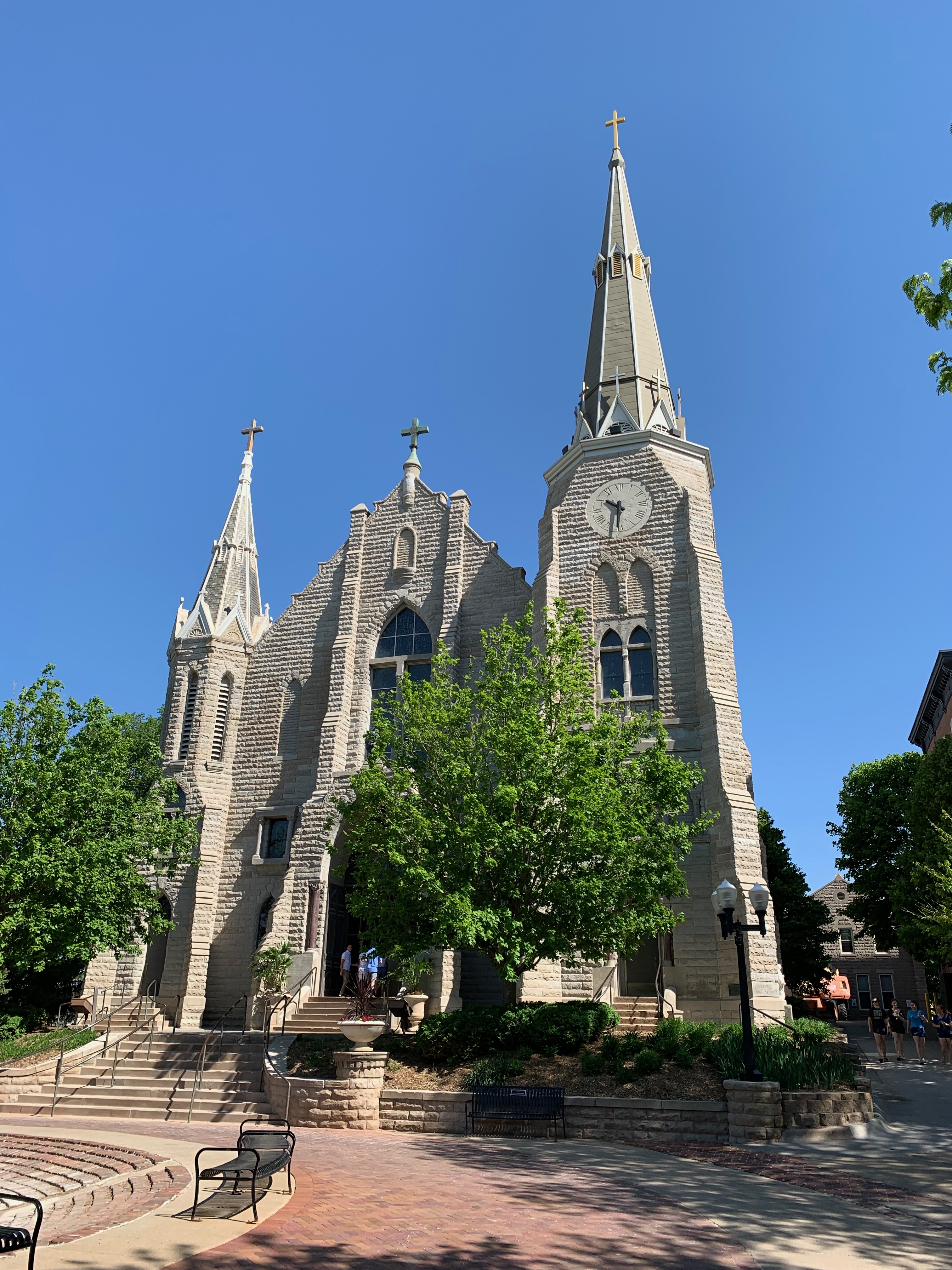 Church of St John at Creighton University, Omaha, Nebraska